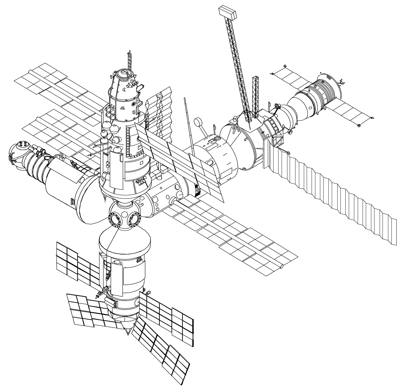 The Mir complex as configured after multiple relocations of Kristall to accommodate Spektr docking and subsequent relocation to the -Y port on June 2, 1995. Spektr is shown at the bottom of the complex in this orientation.